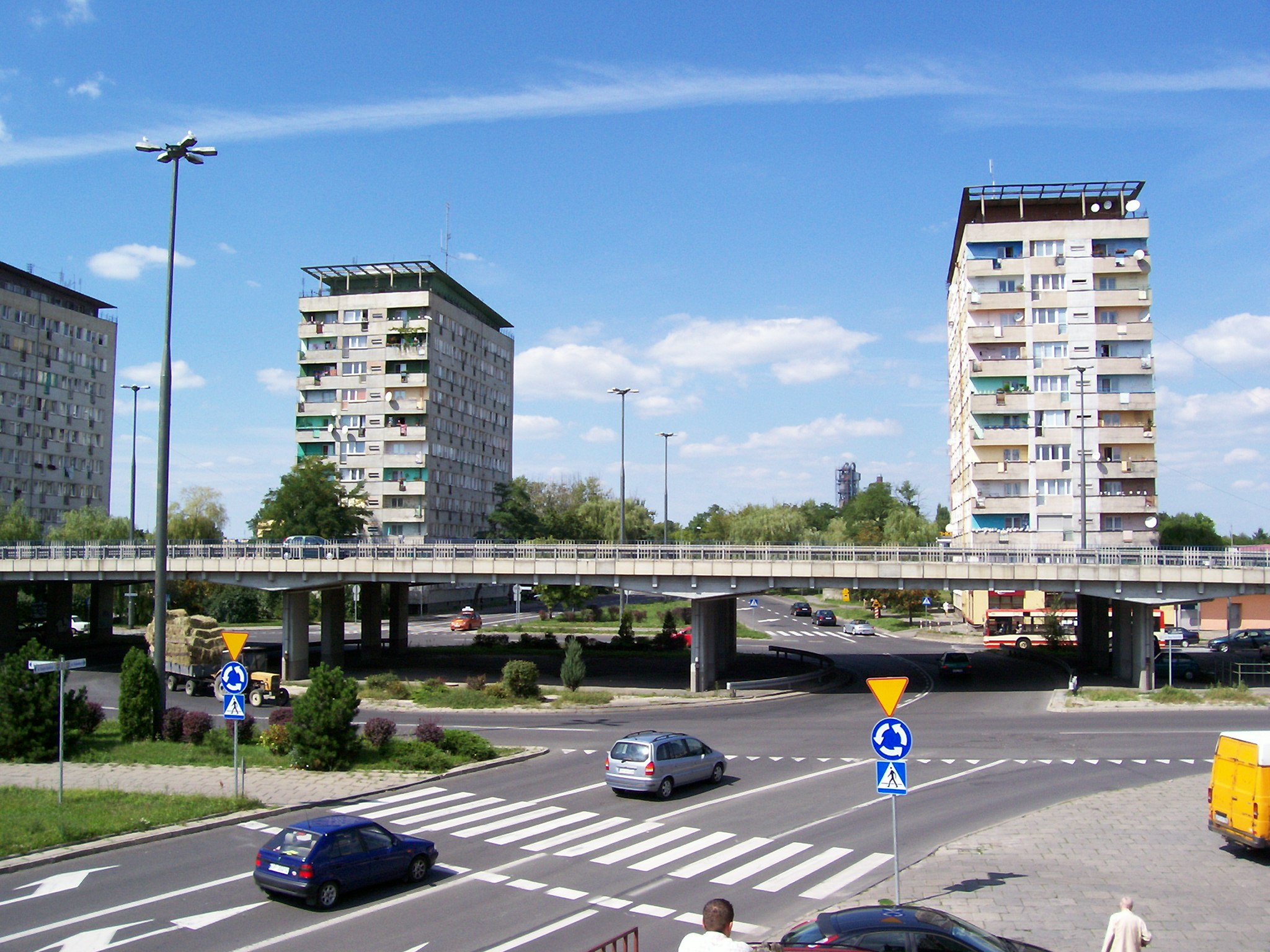 The Constitution of May 3 Place, in Opole (Poland).